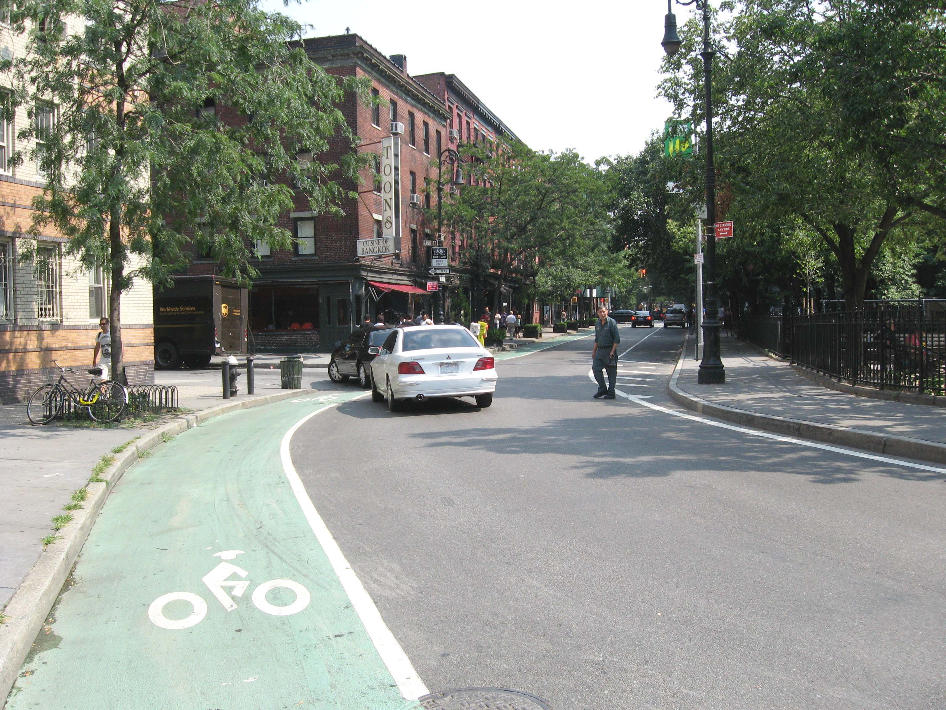 Looking south along Bleecker Street from Eighth Avenue, afternoon; cars turning into Bank Street.